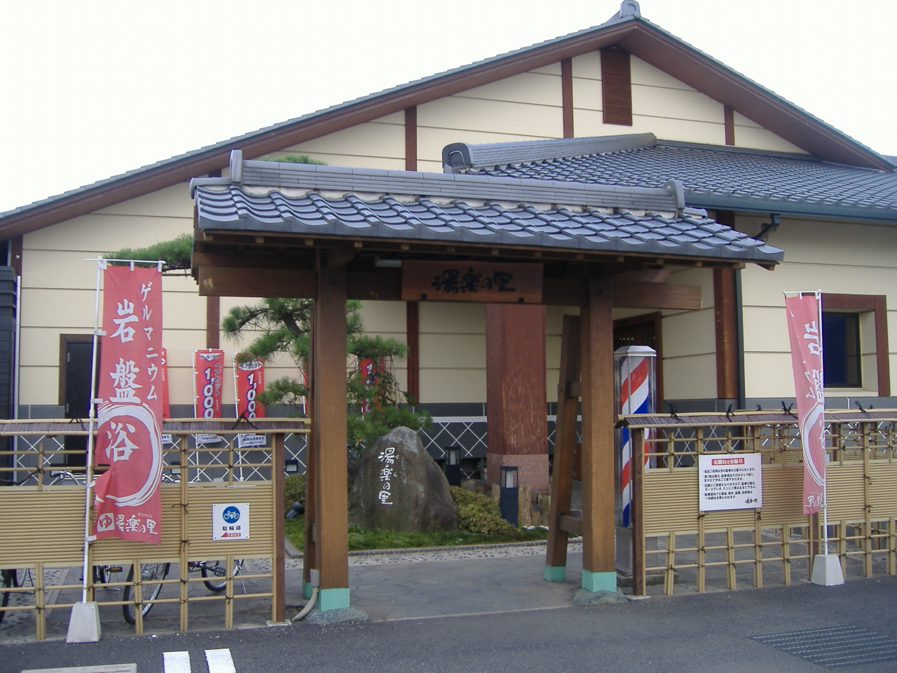 Super sento"Yura-no-sato Kitamoto Onsen" (Saitama, Japan)